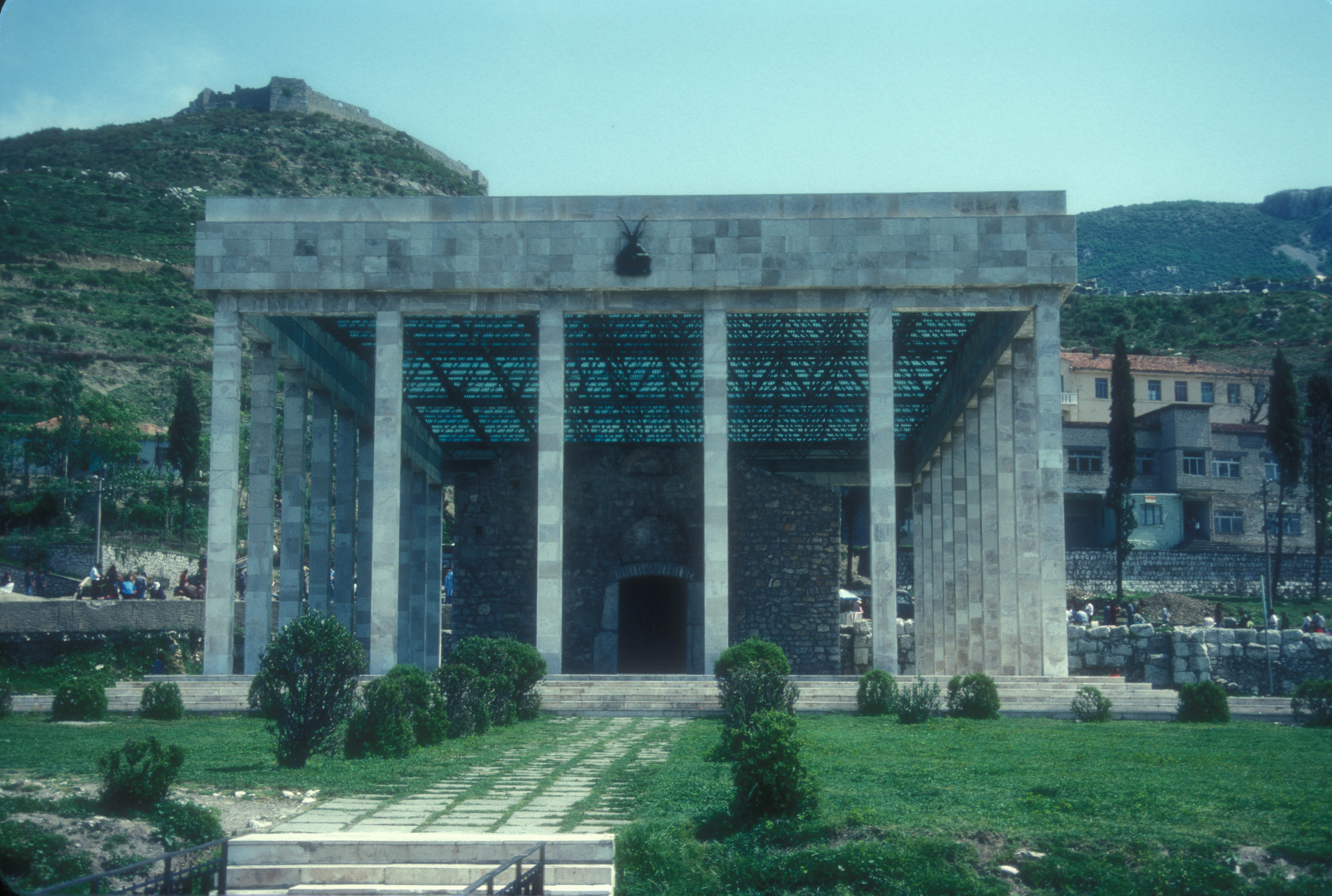 MEMORIAL TO SKANDERBEG BUILT OVER THE RUINS OF ST. NICHOLAS CHURCH WHICH HAD BEEN CONVERTED BY THE TURKS INTO A MOSQUE; SKANDERBEG IS BURIED IN THIS MEMORIAL. IN THE BACKGROUND IS LAZHA CASTLE ON THE HILL